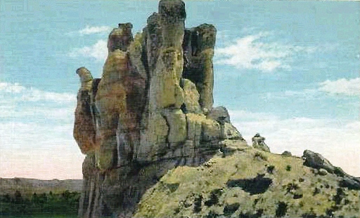 "Teapot Rock-Famous Teapot Dome" "[Salt Creek] Oil District-In Wyoming," historical postcard